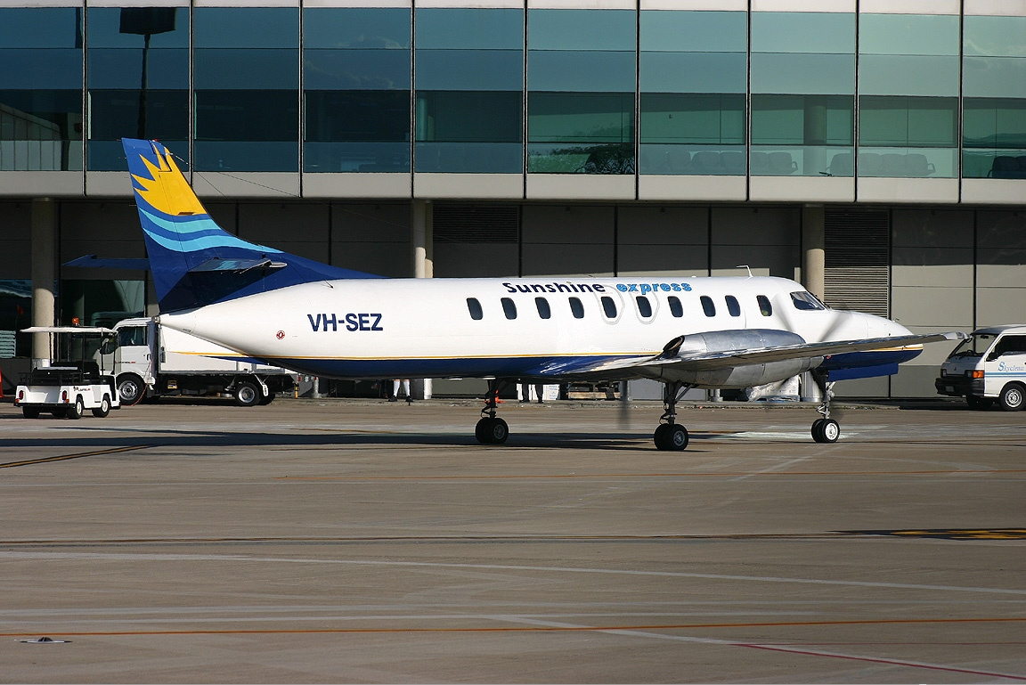 Sunshine Express Airlines Fairchild SA-227AC Metro III at Brisbane Airport